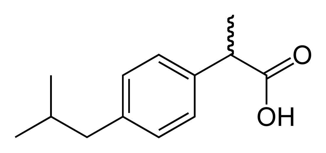 Skeletal formula of the (racemic) ibuprofen molecule, C13H18O2.